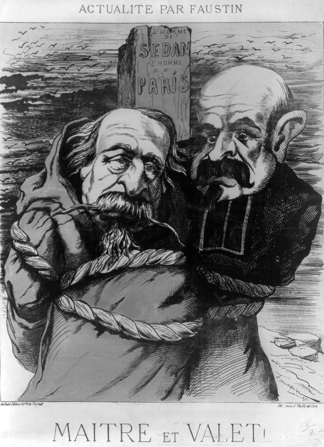 "Maître et Valet !" ("Master and servant!"). Black and white copy of a hand-coloured lithograph. Caricature by Faustin Betbeder ("Faustin", 1847 - ca.1914) showing Napoleon III dressed as a monk and Louis Jules Trochu dressed as a member of the clergy, tied to a post labeled "L'homme de Sedan. L'homme de Paris." Both men were held responsible for the French defeat which ended the Franco-Prussian War.